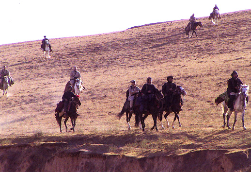 U.S. special forces troops ride horseback as they work with members of the Northern Alliance in Afghanistan during Operation Enduring Freedom on Nov. 12, 2001.